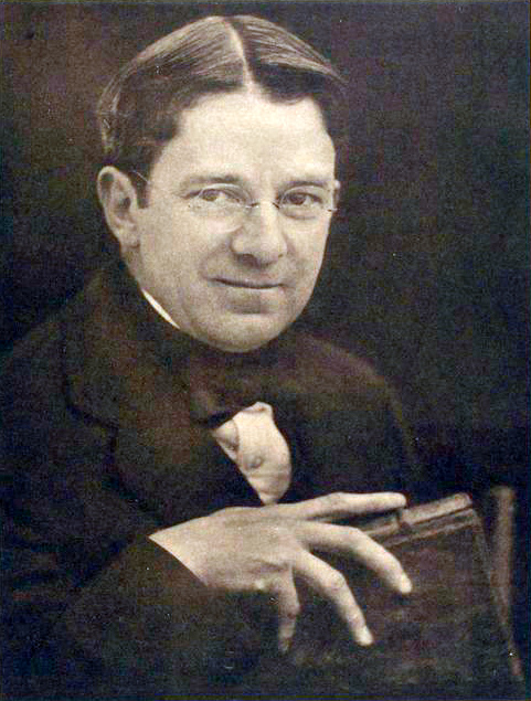 Alvin Langdon Coburn, Harlech, May 19th, 1922.